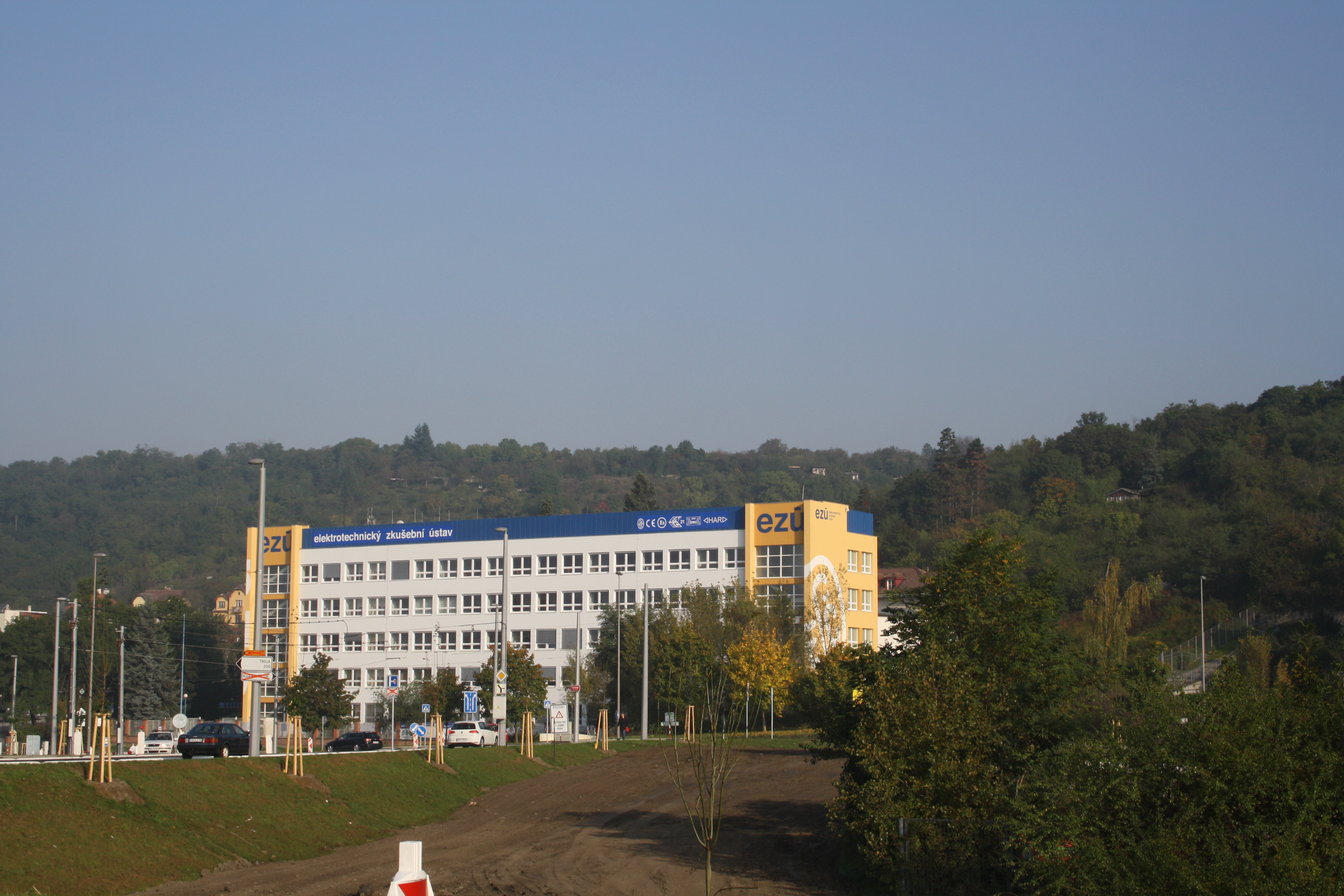 Building of Electrotechnical testing institute in Prague (2014)